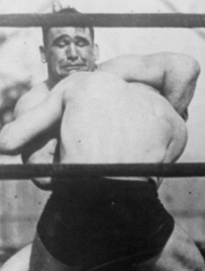 Ed "Strangler" Lewis defeats Cossack giant. Lewis is seen applying the deadly headlock to Ivan Linow at the International Championship Wrestling Tournament.